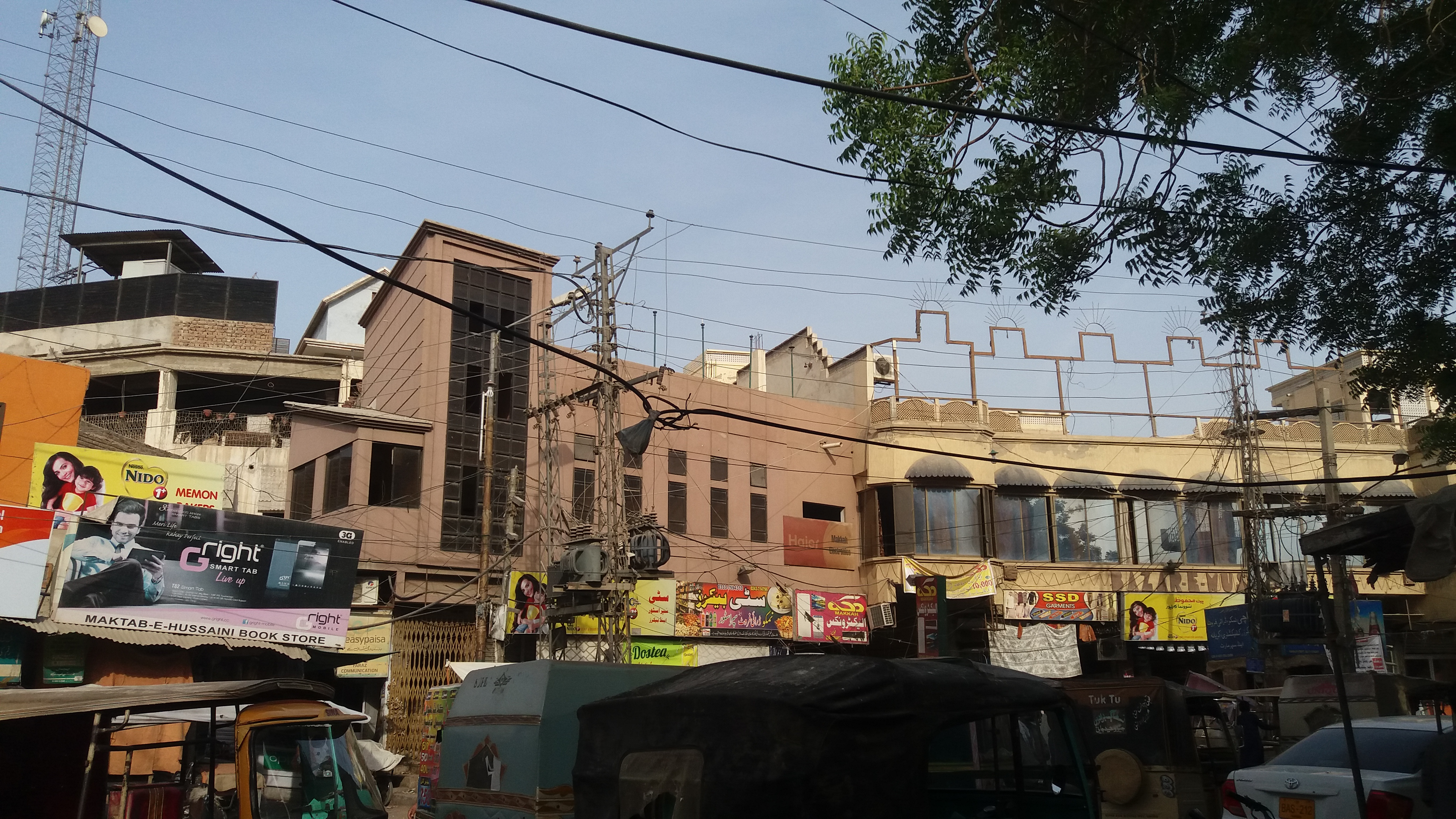 Hotel at punjqula chock khairpur